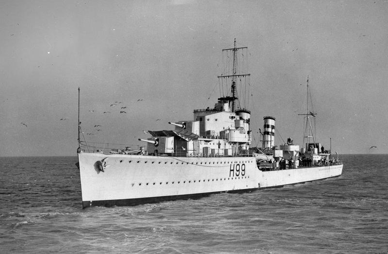 HMS Hero (H99) Stationary.